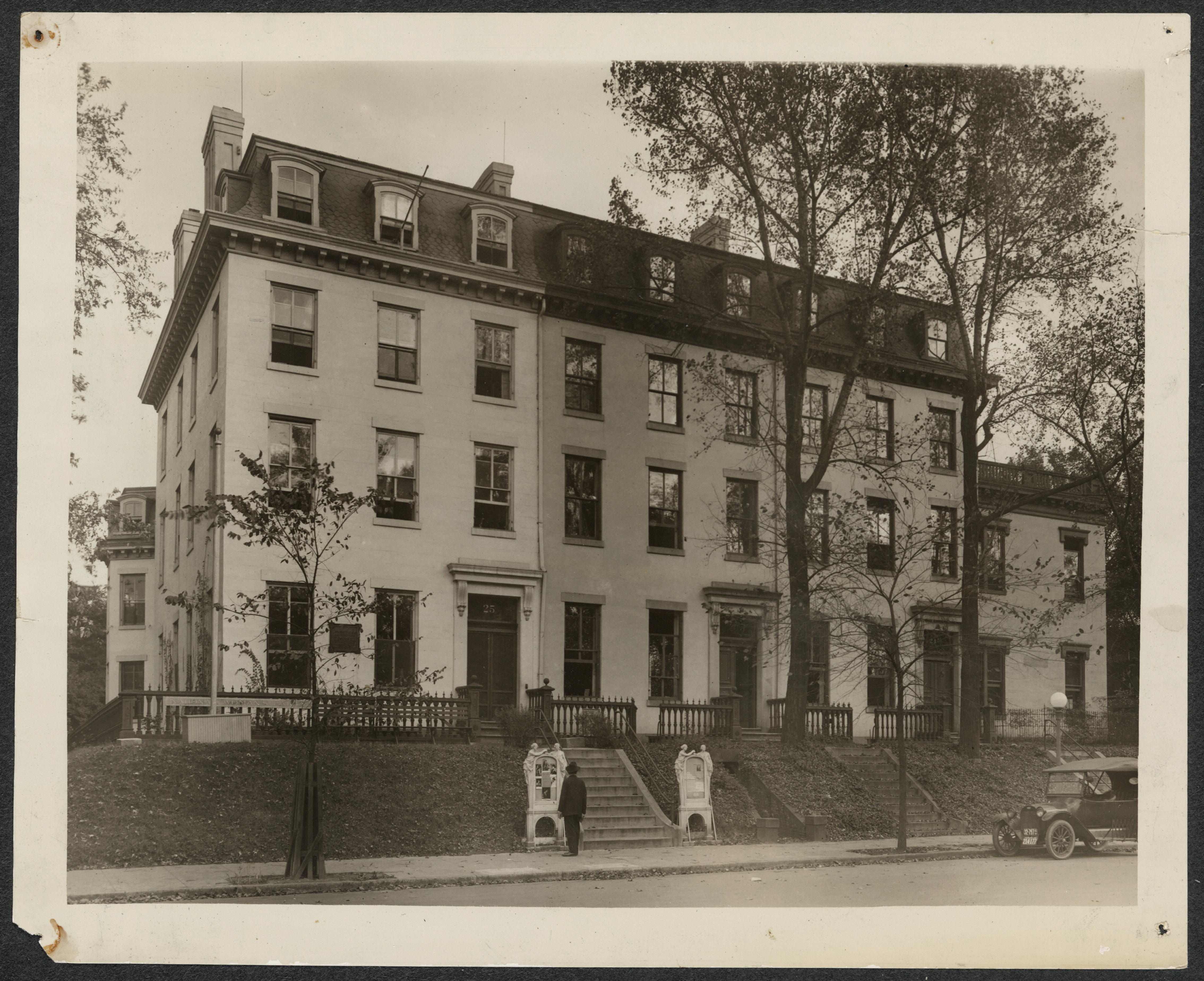 Summary: Photograph of National Woman's Party headquarters, exterior.